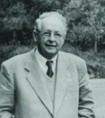 Clipped image from Oberwolfach image